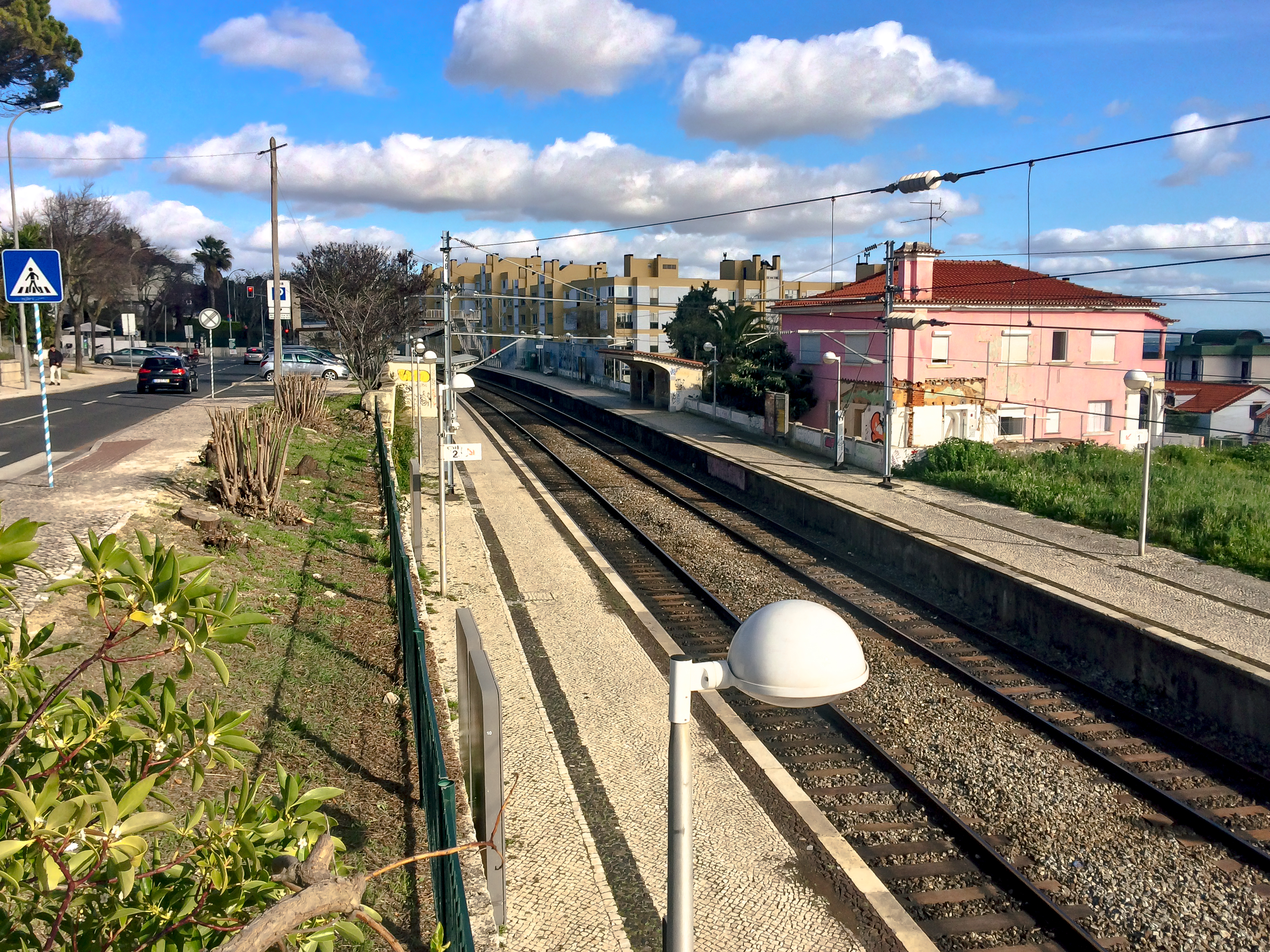 Santo Amaro train station on Linha de Cascais railway line; Portugal